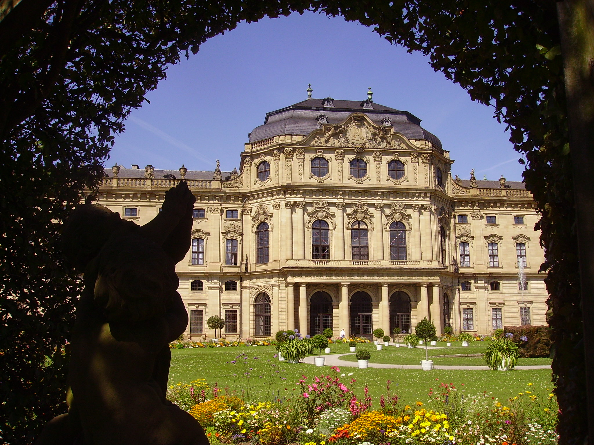 Backside of the Residence, Würzburg